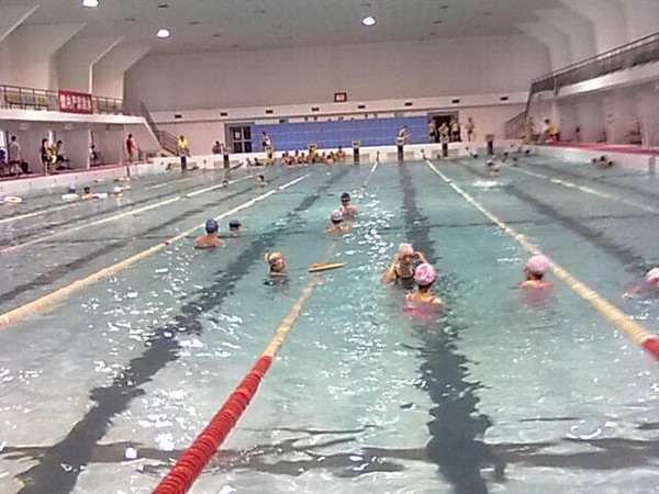 the interior of natatorium of Wuhan Institute of physical Education